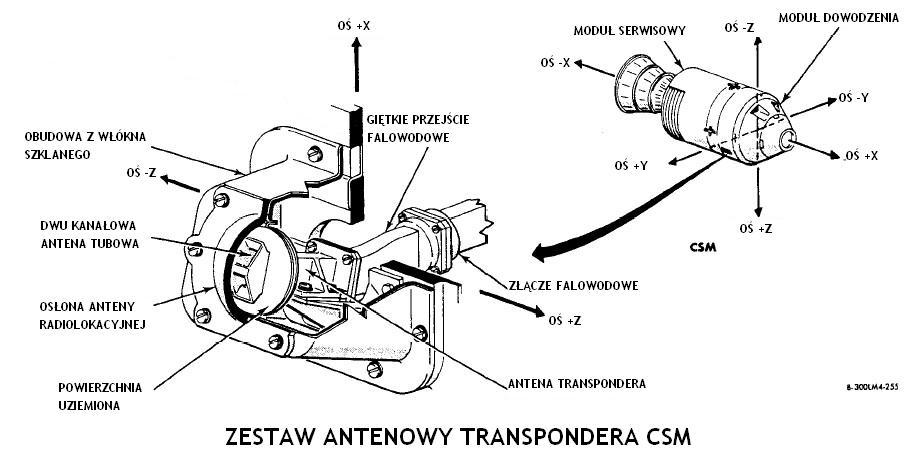 CSM transponder antenna assembly